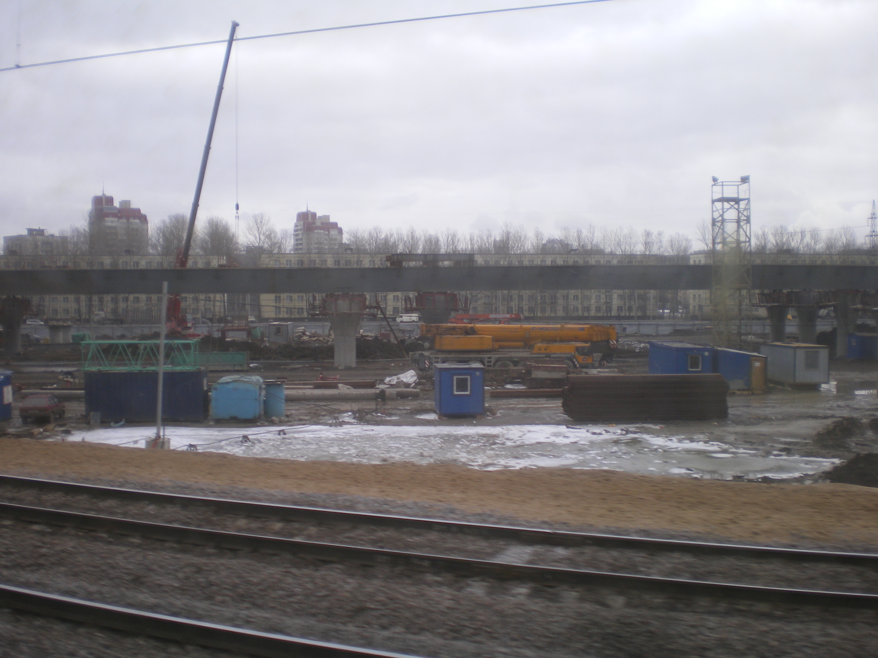 Western Rapid Diameter in Saint Petersburg